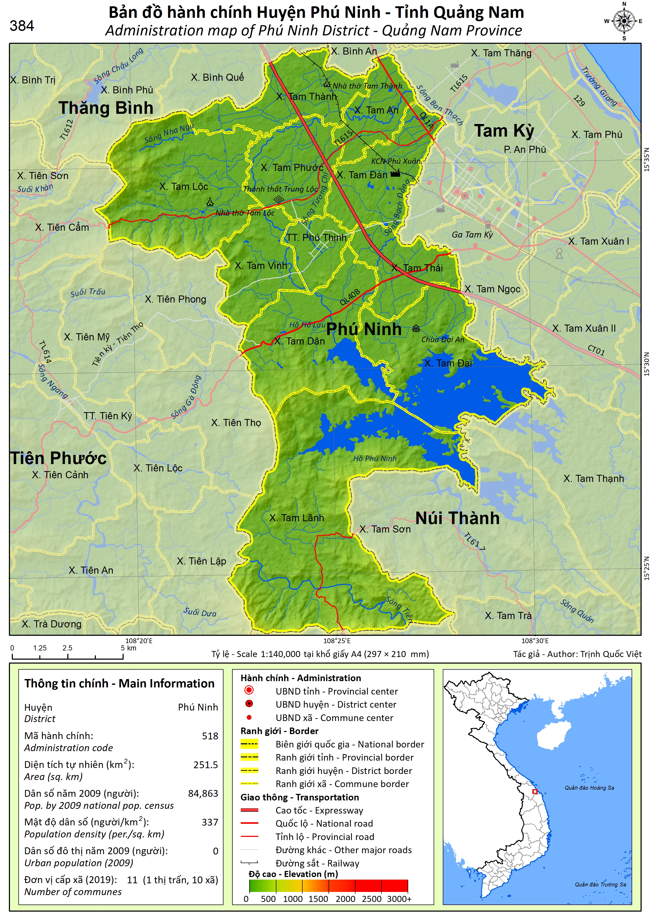 Administration map of Phu Ninh District, Quangnam Province